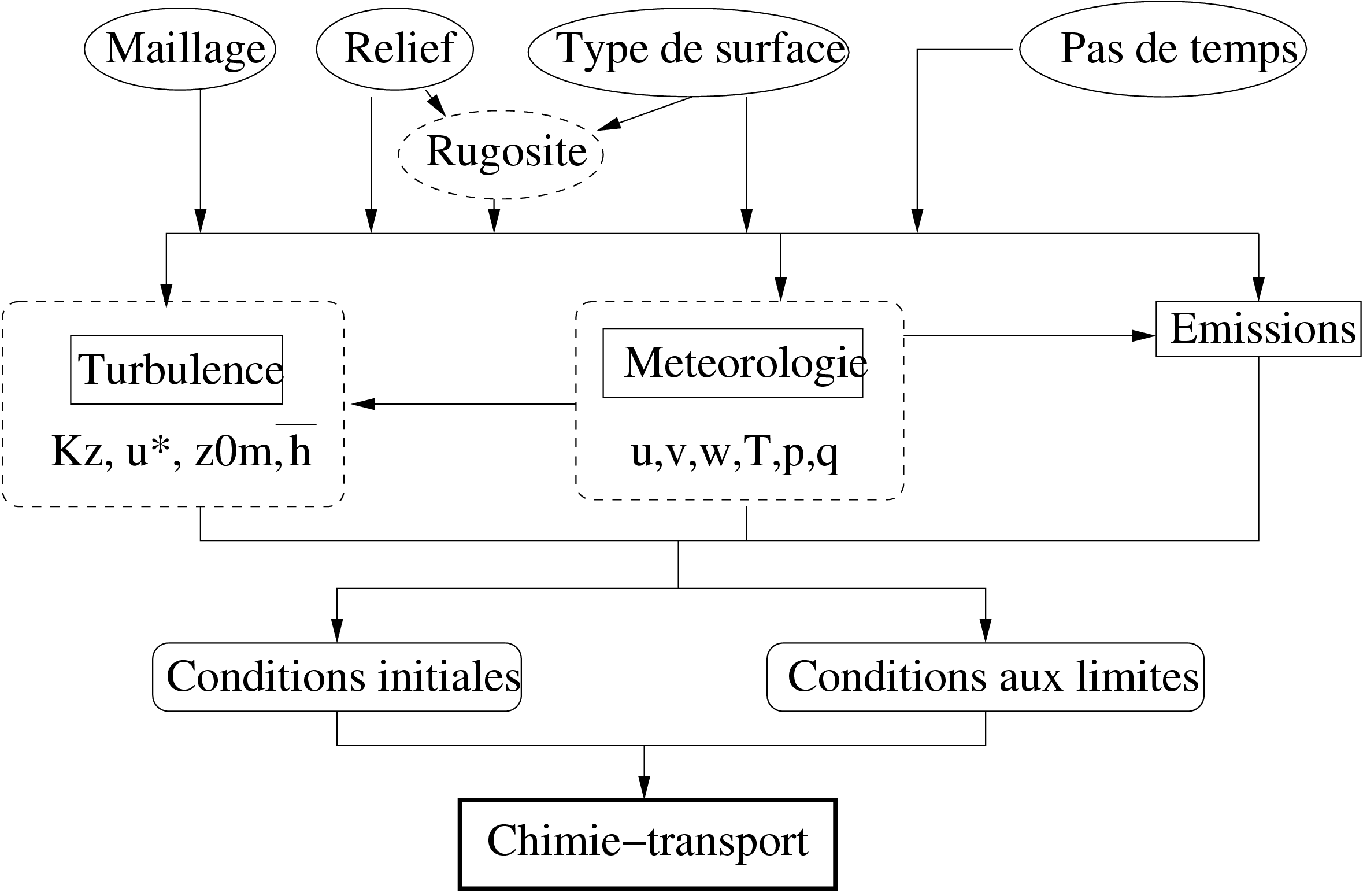 Flowchart of chemistry-transport modeling